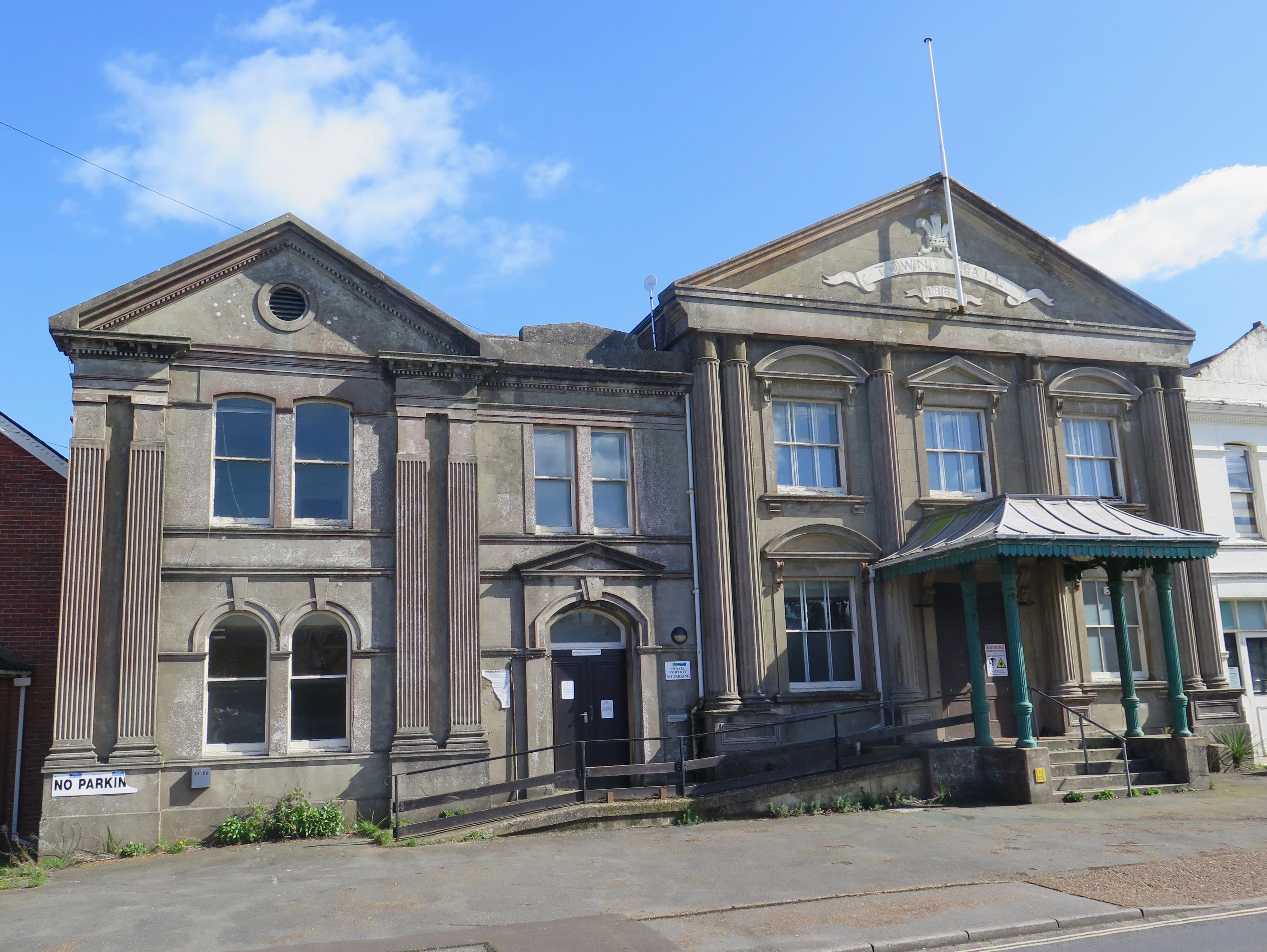 Commissioned and built by Sandown's Local Government Board in 1869, the Town Hall is situated in Grafton Street.